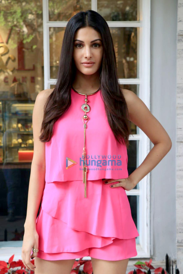 Amyra Dastur spotted in Juhu